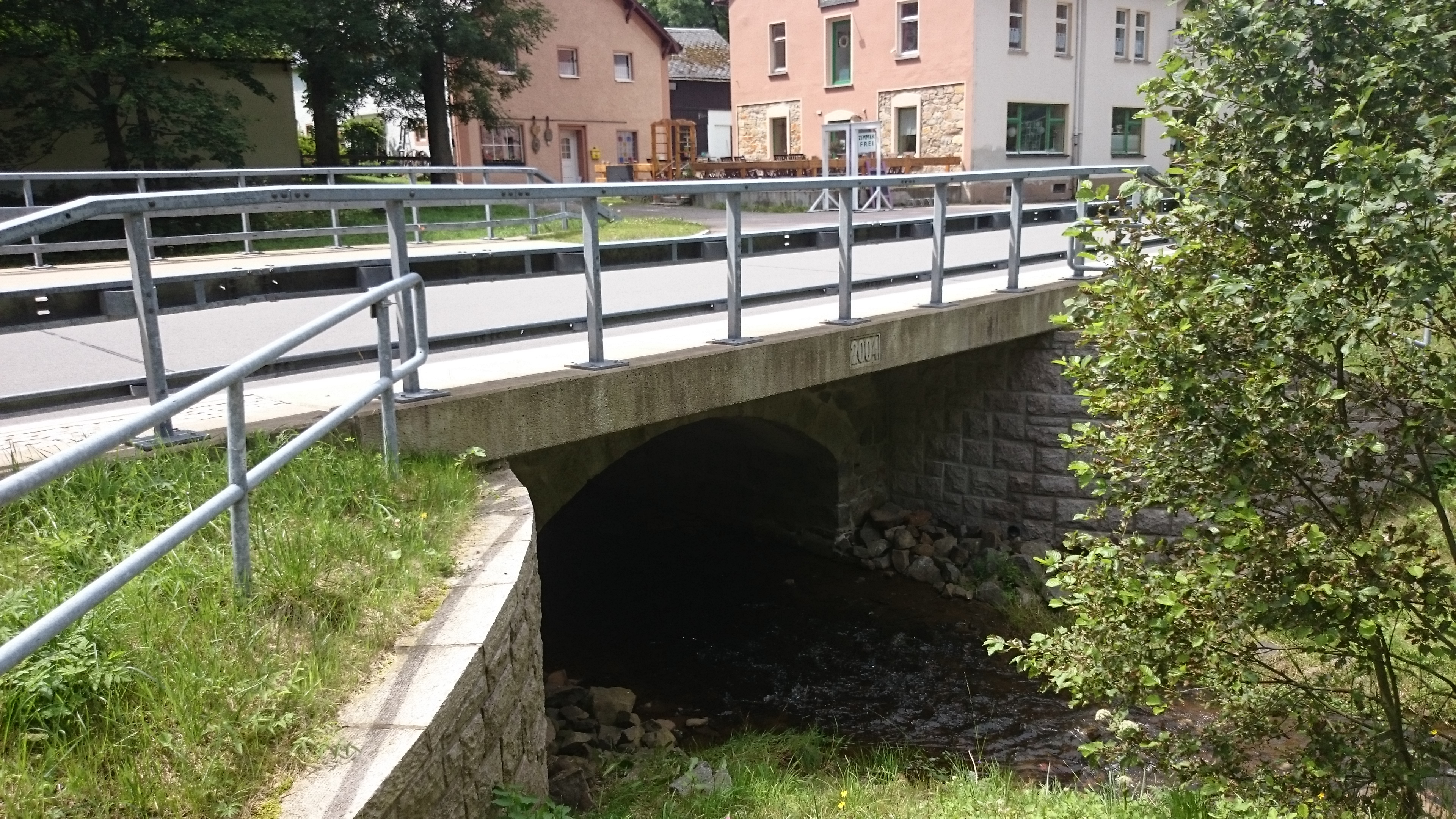 Bridge over the Freiberger Mulde in the hamlet Teichhaus